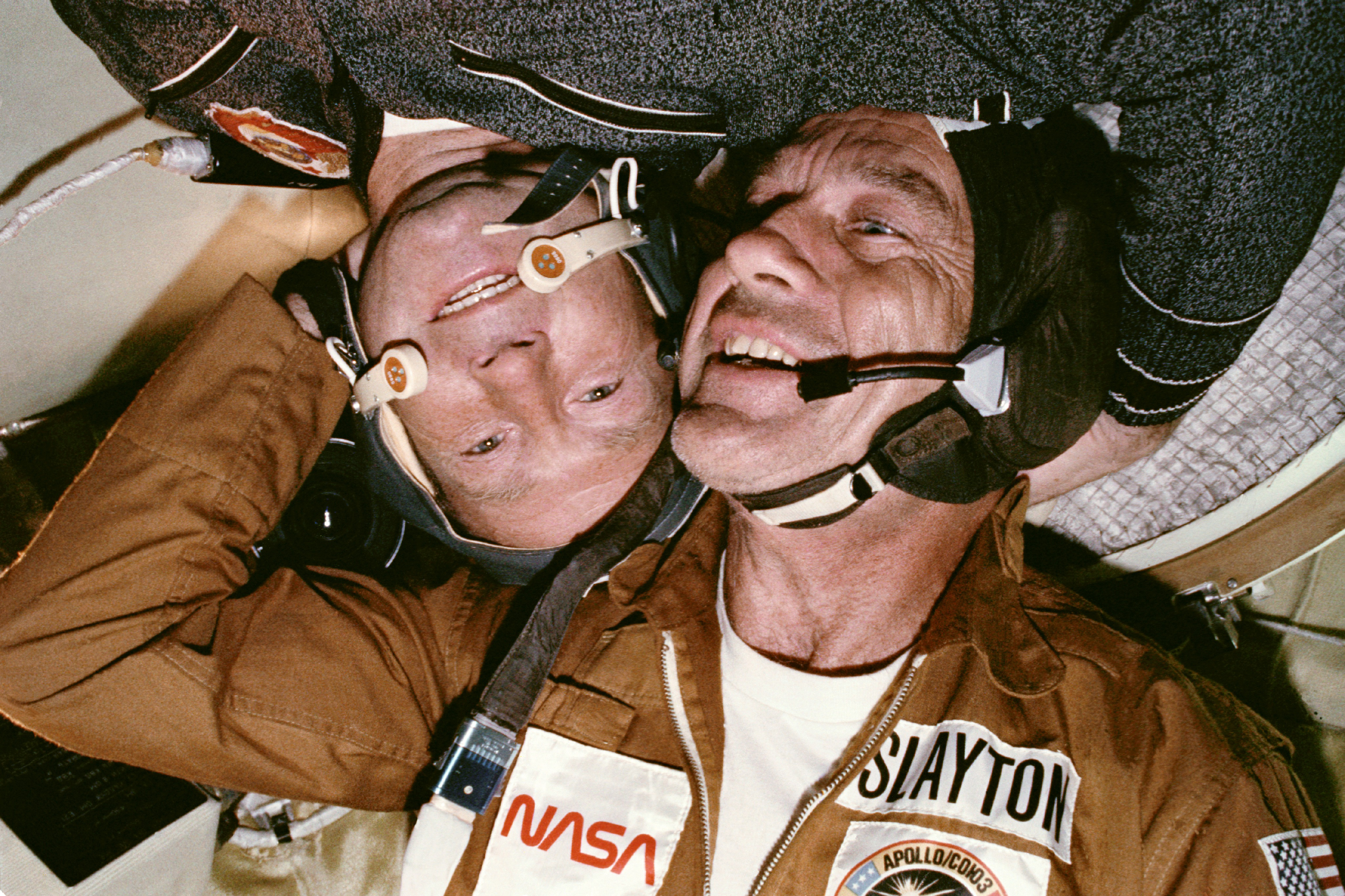 Astronaut Donald K. "Deke" Slayton and cosmonaut Alexey A. Leonov in the Soyuz Orbital Module during the Apollo–Soyuz Test Project. This picture was taken with a 35 mm camera.